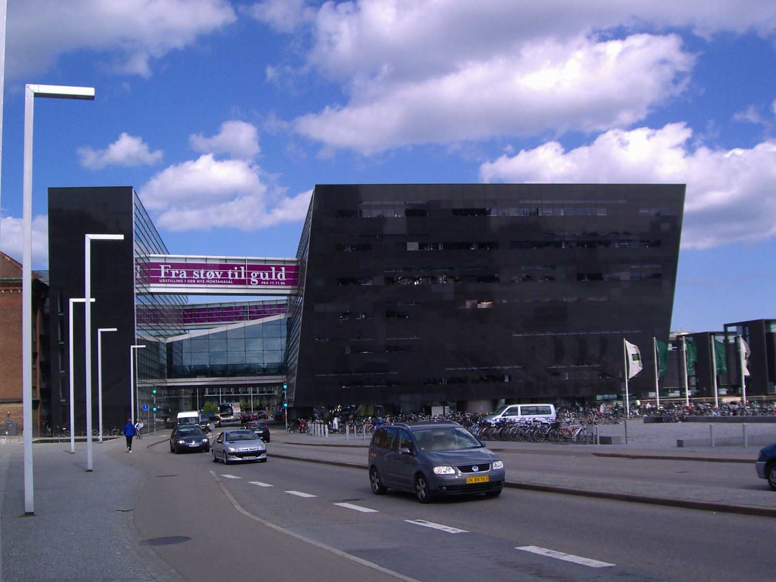 Den Sorte Diamant, one of the buildings belonging to the Royal Library, Copenhagen, Denmark. Seen from the east. The square in front of the building is the square of Søren Kirkegaard (Søren Kirkegårds Plads).